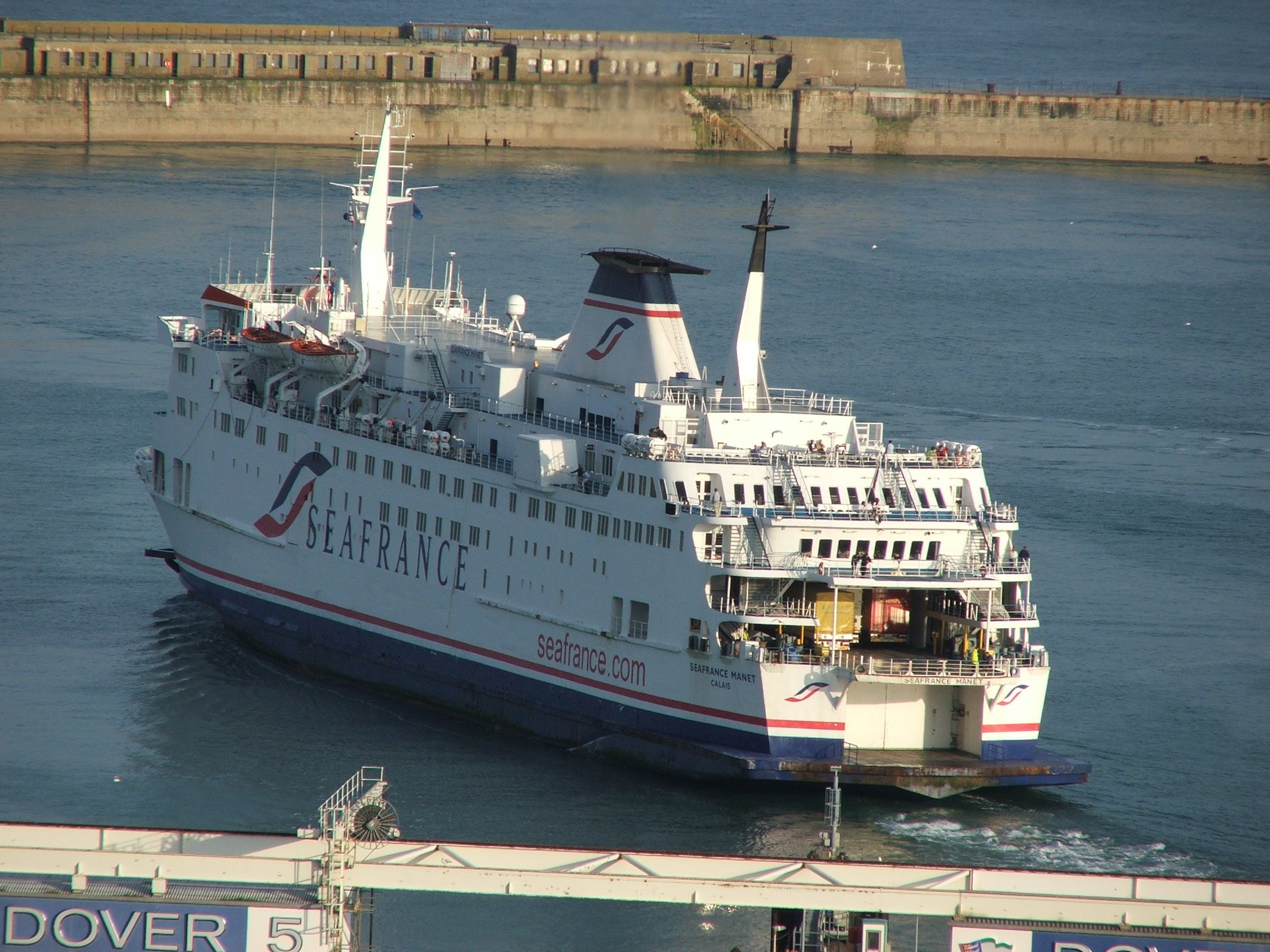 SeaFrance ferry leaving Port of Dover, England